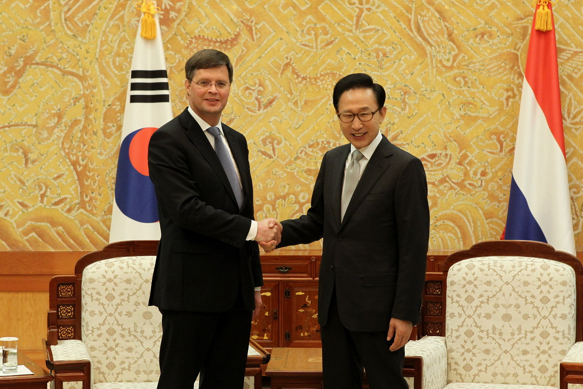 President Lee Myung-bak and visiting Dutch Prime Minister Jan Peter Balkenende held a bilateral summit at Lee's office on Apr. 28, 2010.